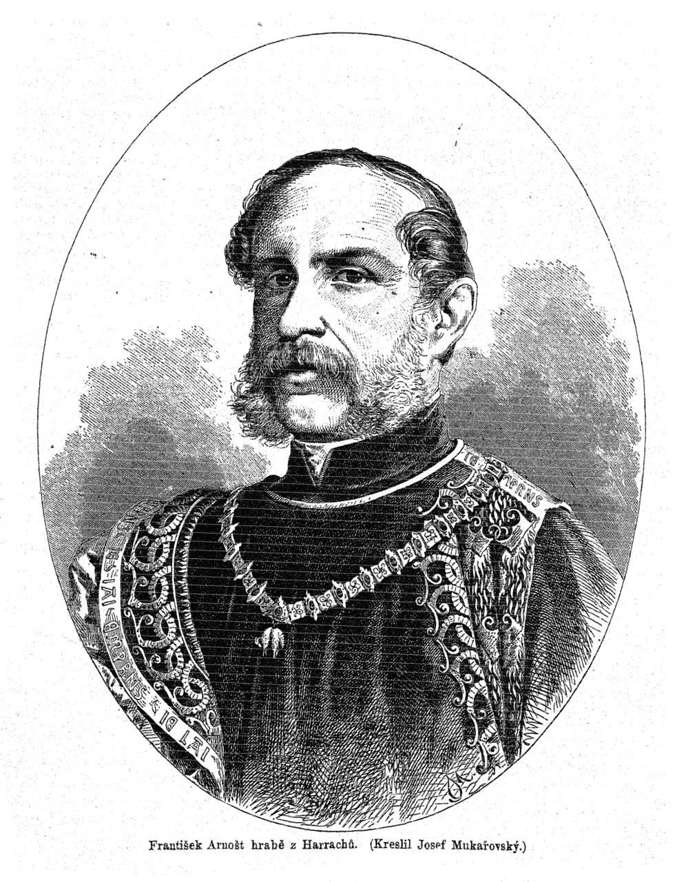 Portrait of František Arnošt Harrach (1799-1884), Czech nobleman and politician